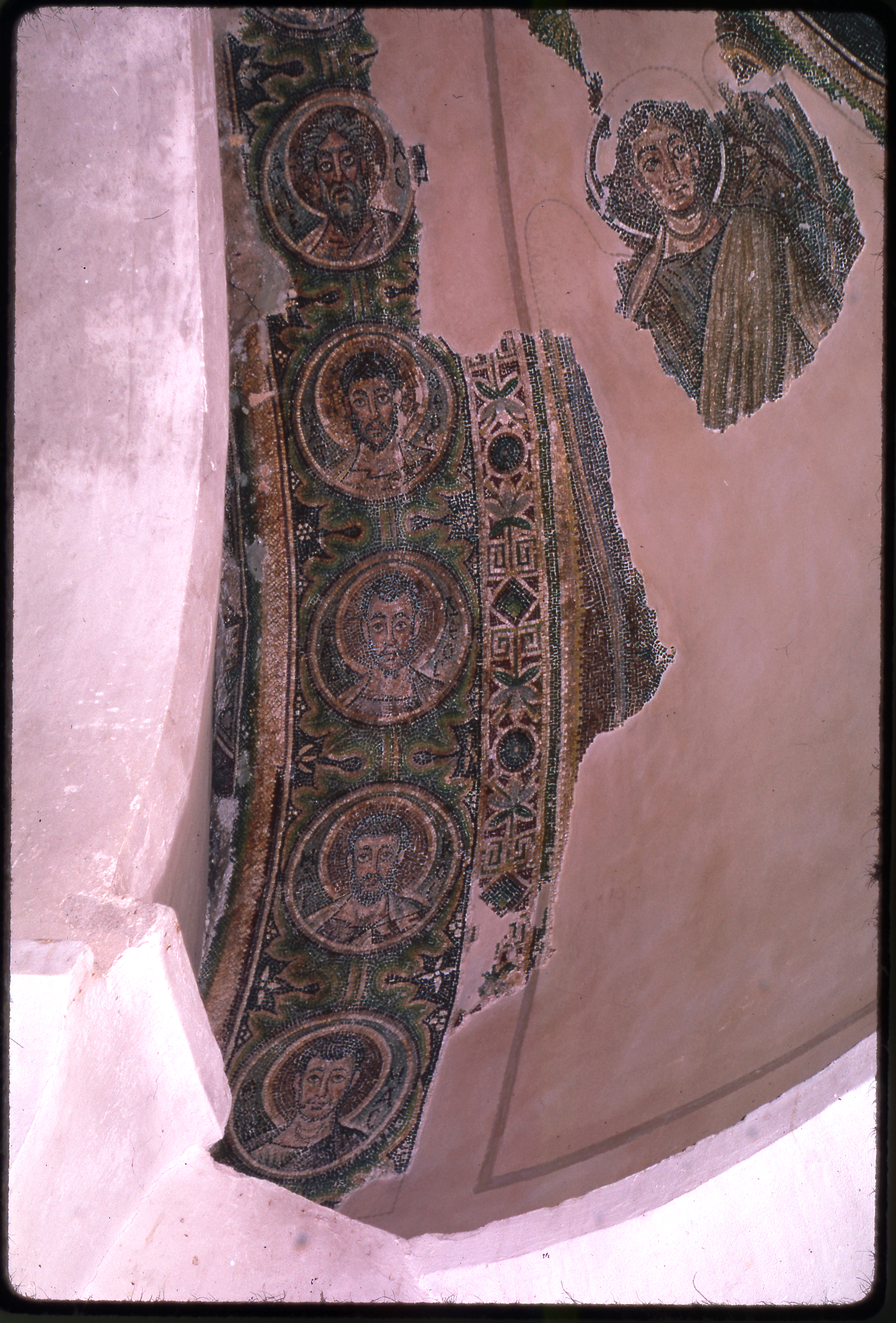 Panagia Kanakaria, Lythrangomi, detail of apse mosaics in 1973 (Agfachrome 35 mm)